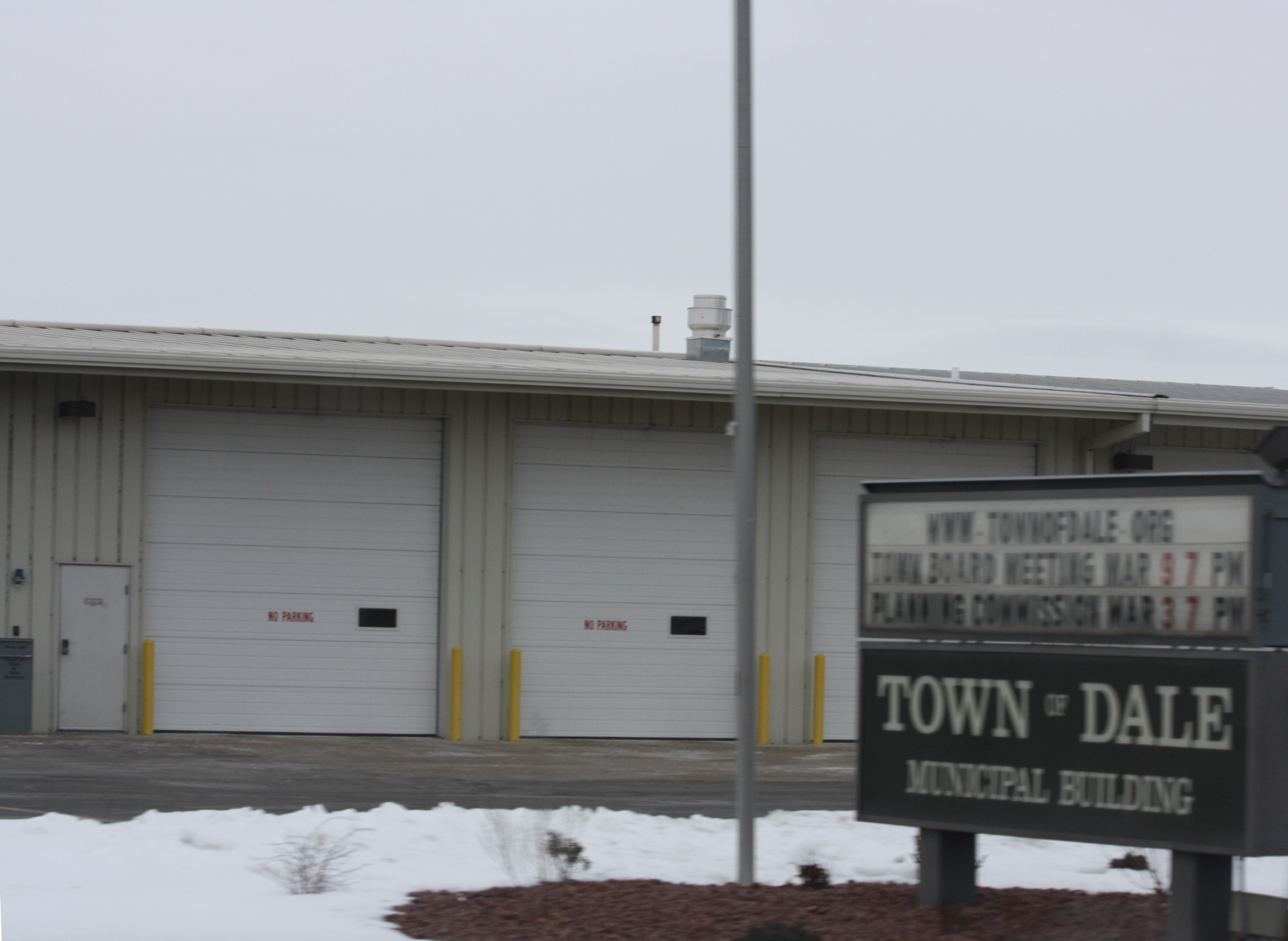 Looking the town hall for Dale, Wisconsin in Dale (community), Wisconsin on Wisconsin Highway 96.